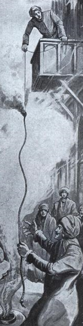 An example of how the Indian rope trick could be performed. Dense smoke used by the fakir and a line or thread used from the his assistant on the balcony.